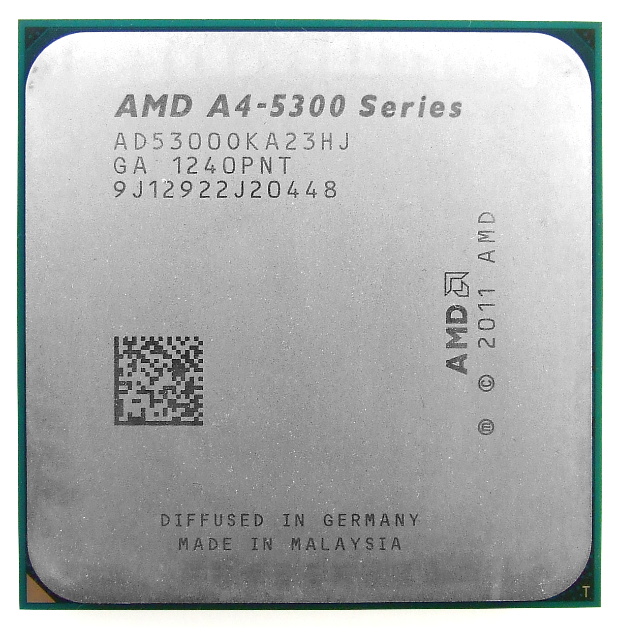 AMD A4-5300 microprocessor with on-chip graphics, also known as an APU. Technical specifications: Socket: FM2/FM2+ Core: Single Piledriver module (1M/2T) Stepping: TN-A1 (Trinity 32 nm) Clock speed: 3400 Mhz (base), 3600 Mhz (turbo) Cache: 2x 16 KB L1 + 1 MB L2 (shared) FSB: Universal Media Interface TDP: 65 W